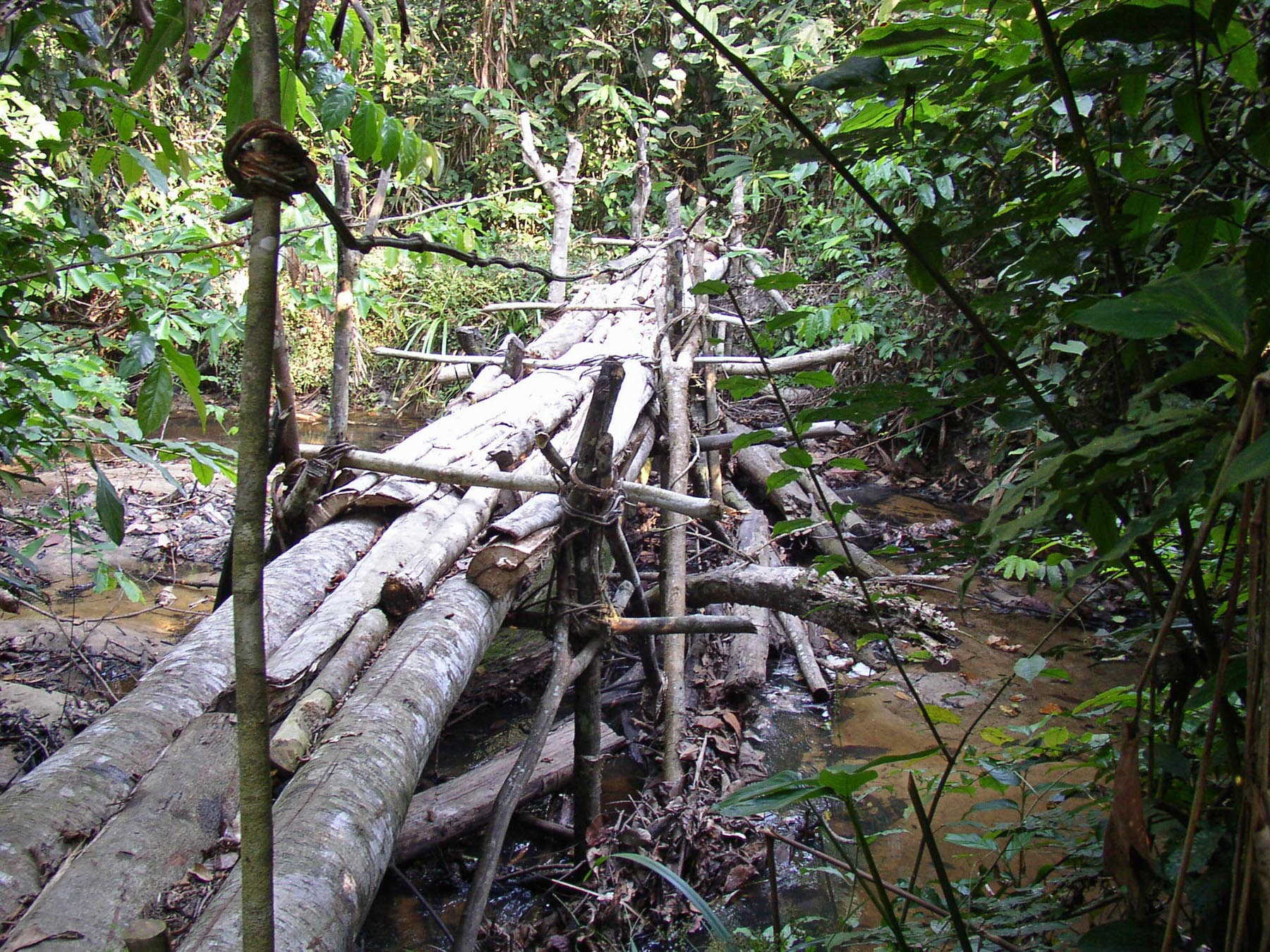 Wooden bridge, built with 100% natural products to cross a swampy marshy area in the Okapi Fauna Reserve, Democratic Republic of Congo